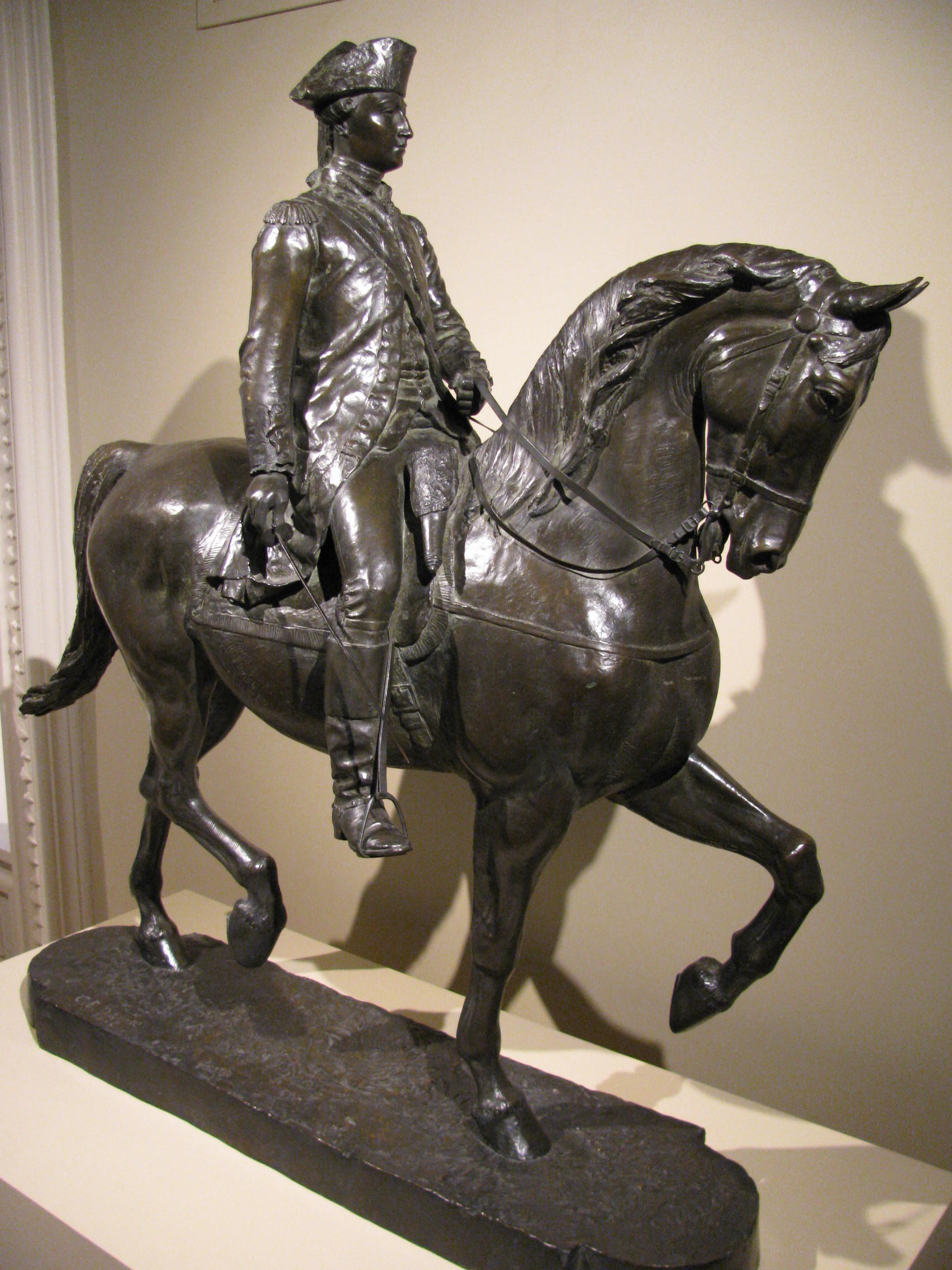 Lafayette (model for colossal statue) 1889 Cyrus E. Dallin Born: Springville, Utah 1861 Died: Arlington Heights, Massachusetts 1944 Thiebaut Freres (Founder) bronze overall: 42 1/4 x 43 1/8 x 15 3/8 in. (107.4 x 109.6 x 39.1 cm.) Smithsonian American Art Museum Gift of University of Pennsylvania School of Dental Medicine, Thomas W. Evans Collection 1983.101.3 Smithsonian American Art Museum